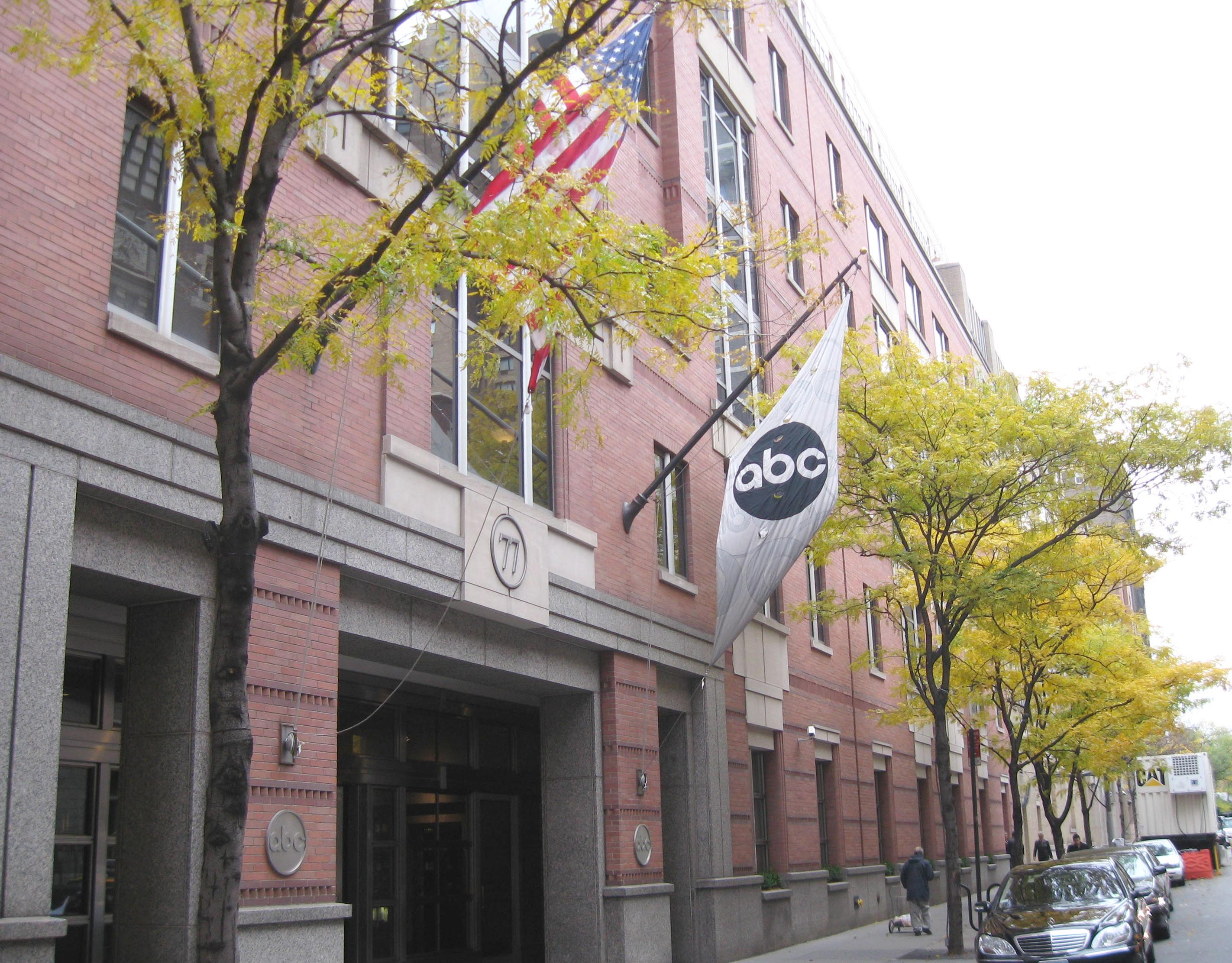 Looking east at ABC News headquarters at 77 West en:66th Street (Manhattan) on a cloudy afternoon. ZIP 10023.